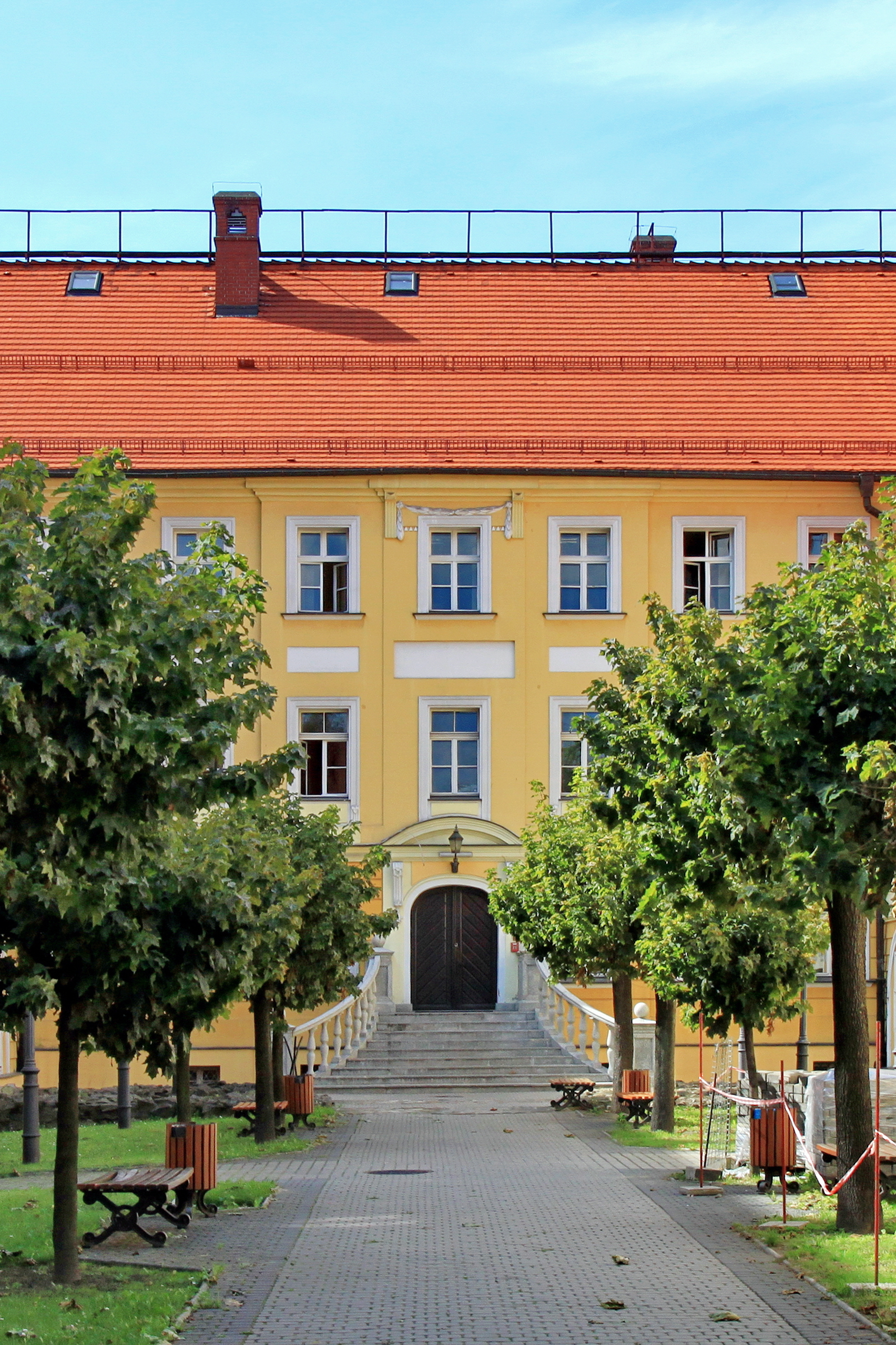 Rybnik, former castle, palace, now district court, build in 17th century, 1776-78